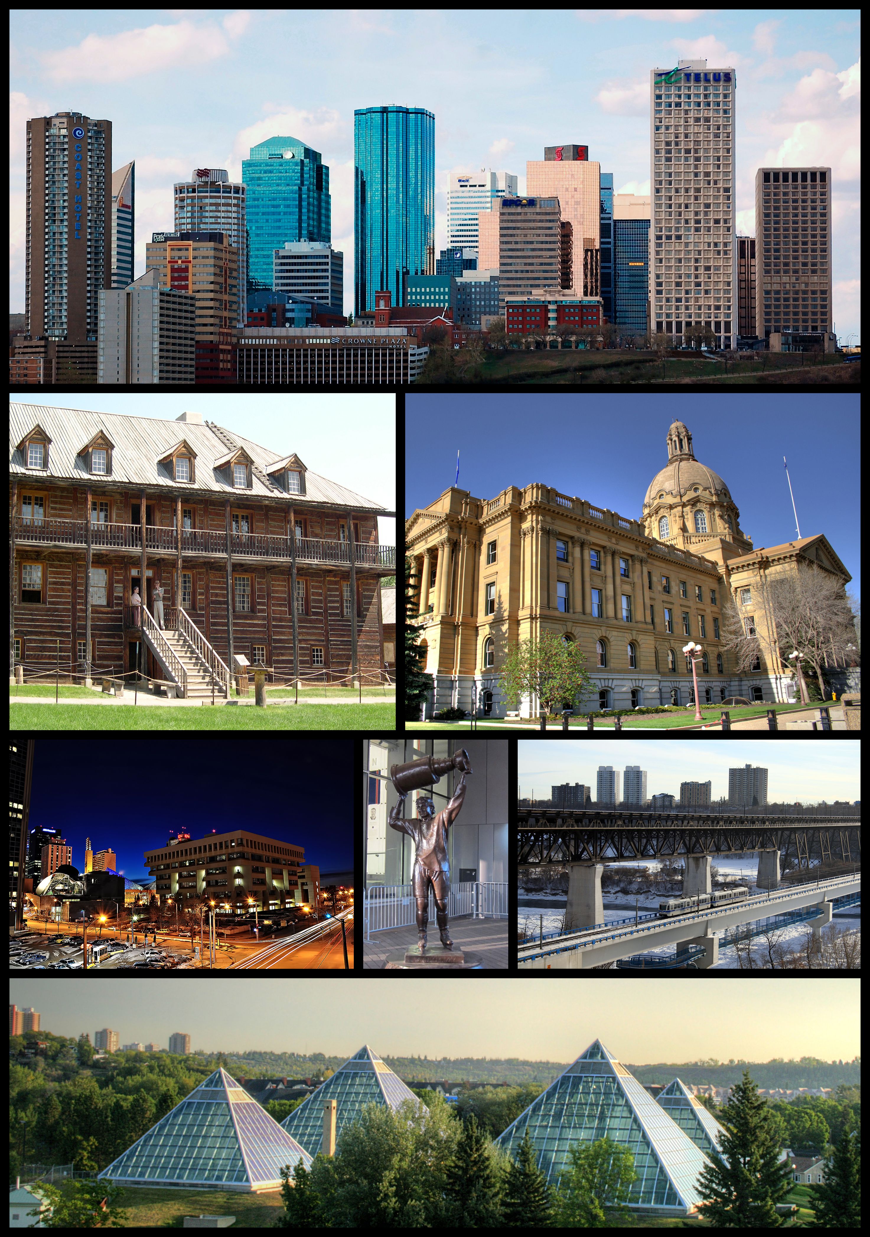 From top left, the skyline of downtown Edmonton from the south bank of the North Saskatchewan River, the Rowand House in the Fort Edmonton courtyard at Fort Edmonton Park, the Alberta Legislature Building from the northeast, the Art Gallery of Alberta, Edmonton City Hall and Law Courts from 102A Avenue and 97 Street, a statue of Wayne Gretzky under a pedestrian bridge on the south side of Rogers Place, the High Level Bridge and Dudley B. Menzies Bridge from the north bank, and the Muttart Conservatory from the south, in Edmonton.